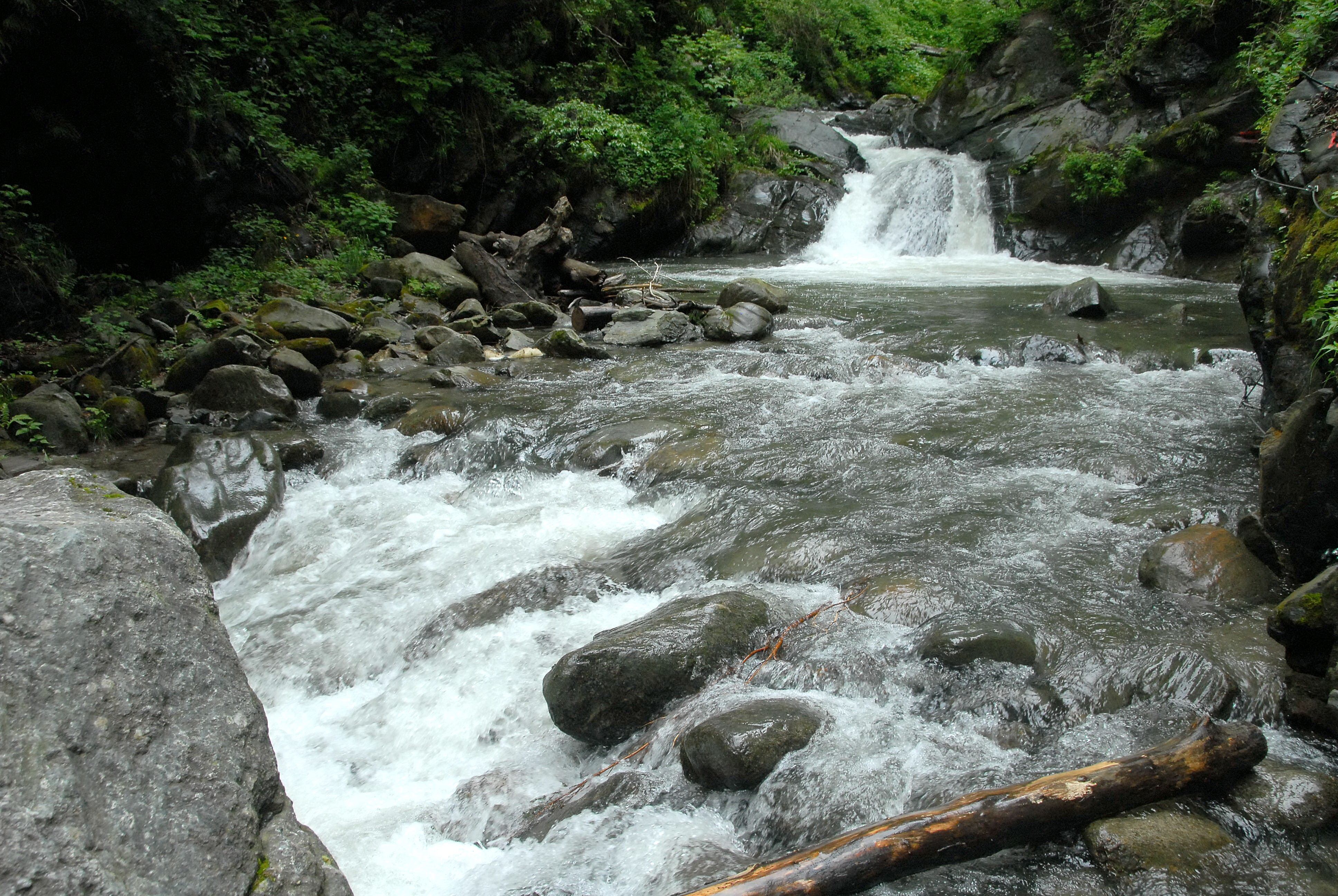 Kaning brook at Radenthein, district Spittal an der Drau, Carinthia, Austria